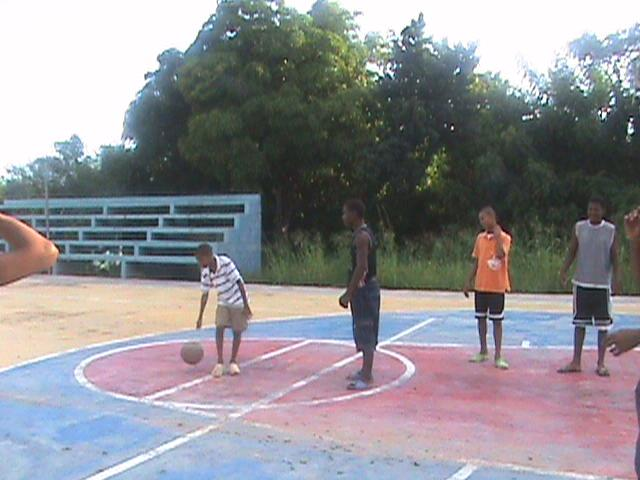 niños jugando